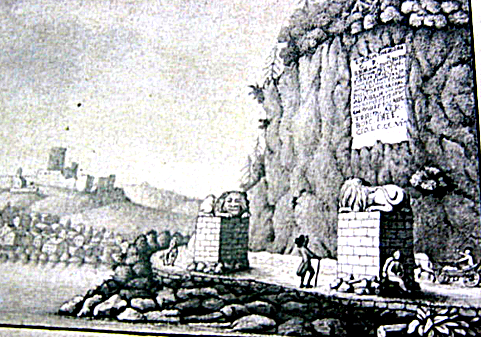 Bad Abbach Löwendenkmal, um 1800